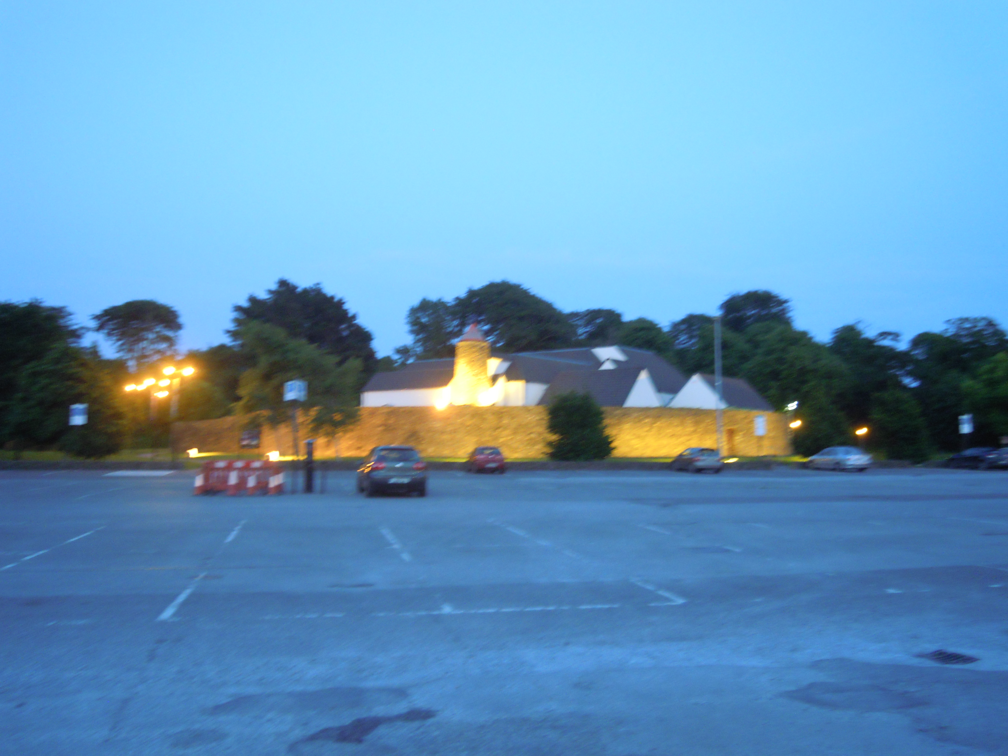 Location of Siamsa Tíre in Tralee, Co. Kerry, Ireland